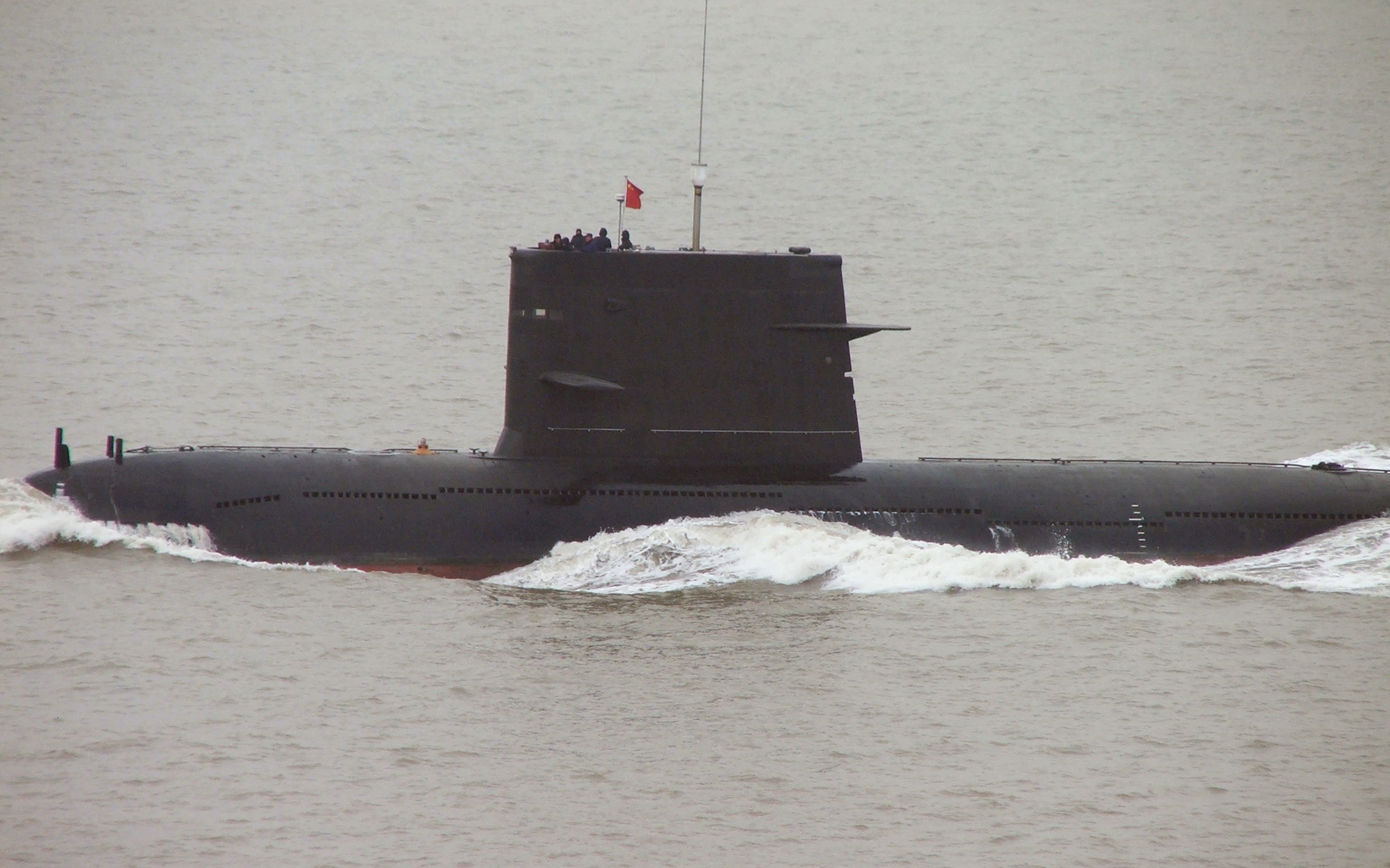 Song-class Submarine